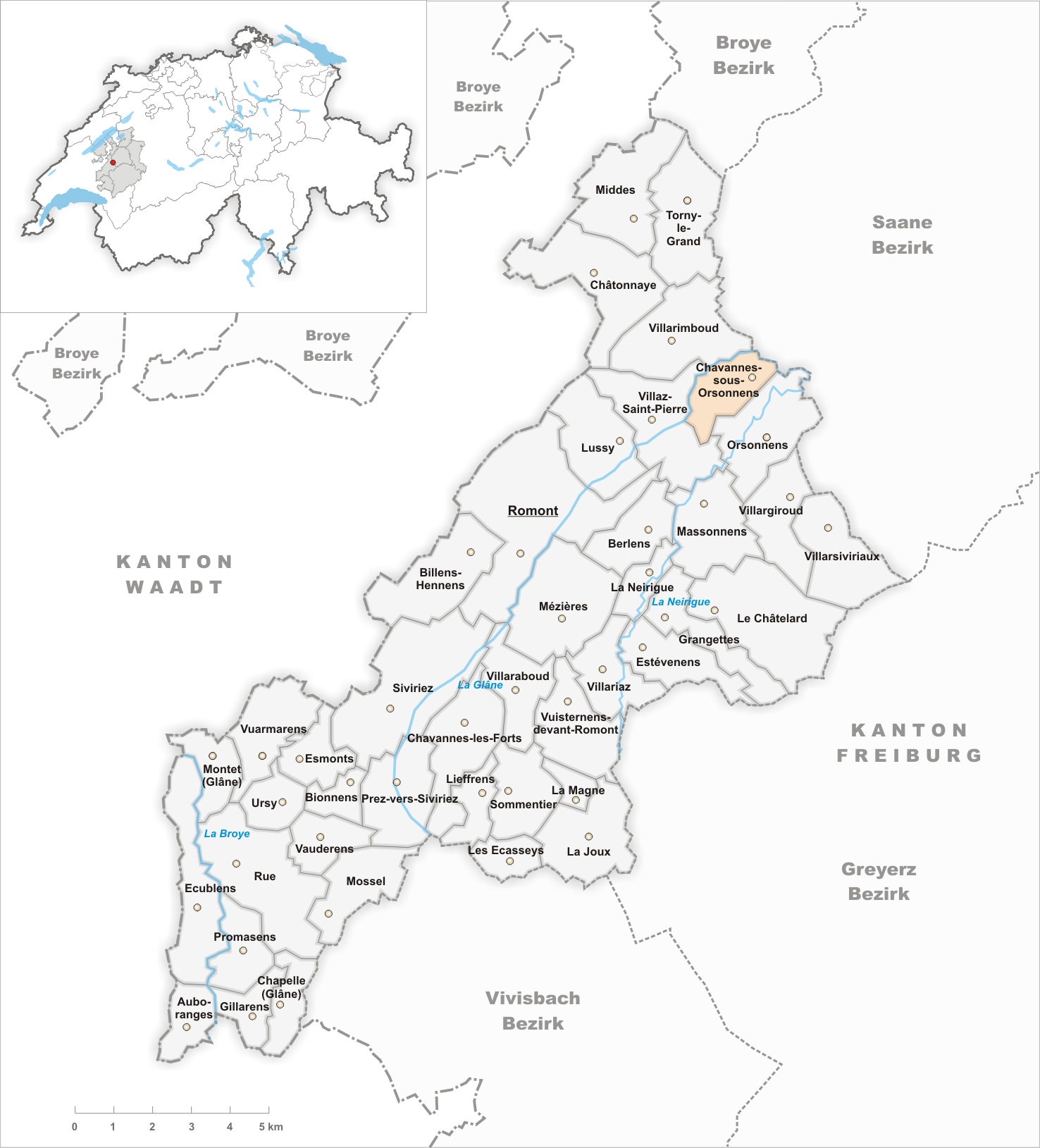 Municipality Chavannes-sous-Orsonnens Artist: Tschubby